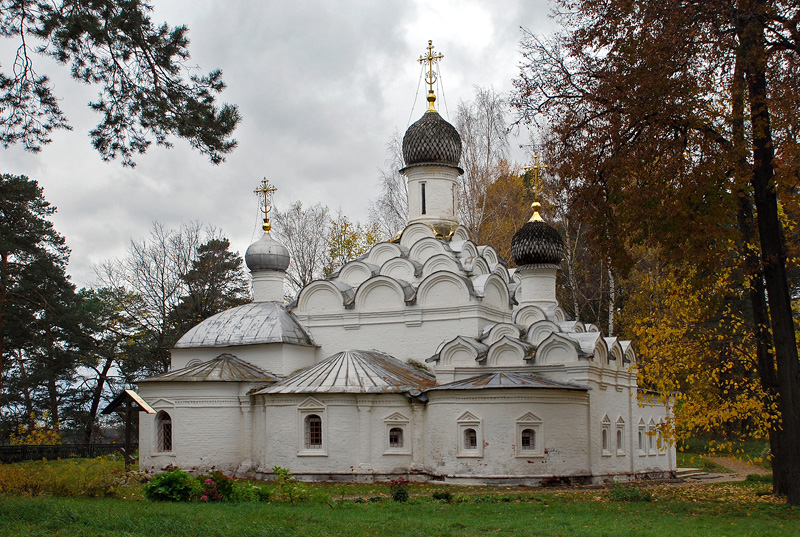 Church Mihail Arhangel in Arkhangelskoye